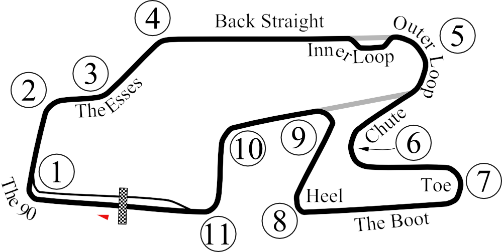 New version based on Image:Watkins_Glen_International_Track_Map.svg with white borders on some objects in case the background isn't white. New version adds the bus stop. The PNG version was updated for users of browsers like IE7 that don't support SVG.